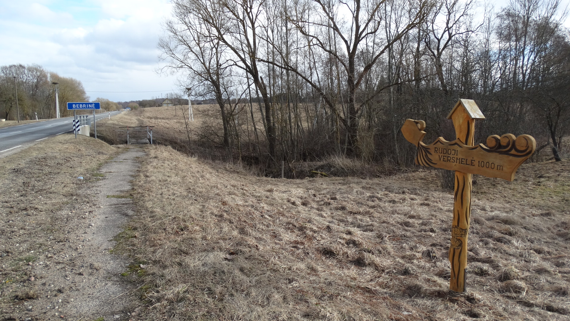 Rudoji versmelė (Brown Spring), Salakas, Zarasai district, Lithuania